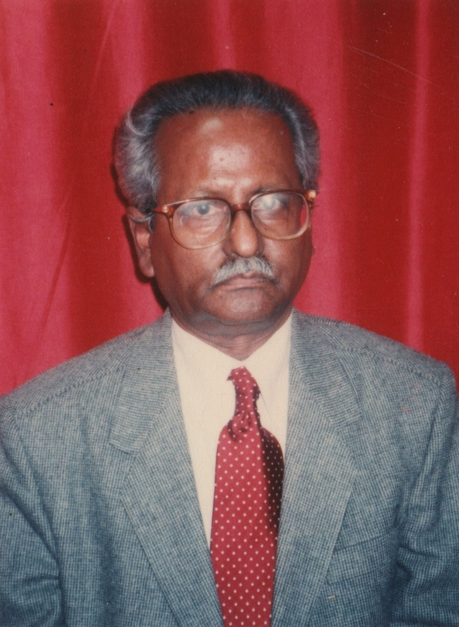 Portrait of Mahbub Jamal Zahedi, former editor of The Khaleej Times.